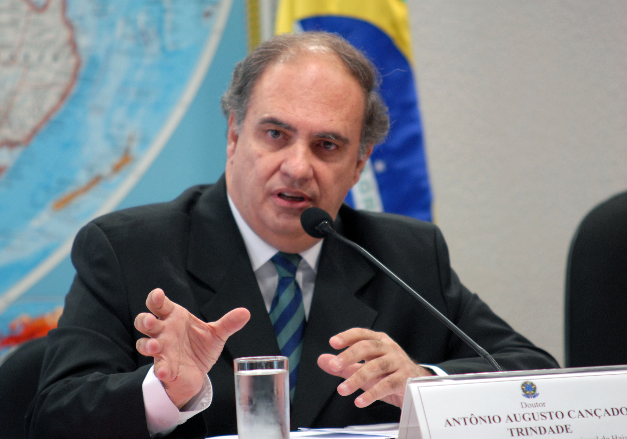 Antônio Augusto Cançado Trindade (* 1947), Brazilian jurist; Judge at the International Court of Justice in The Hague since February 2009